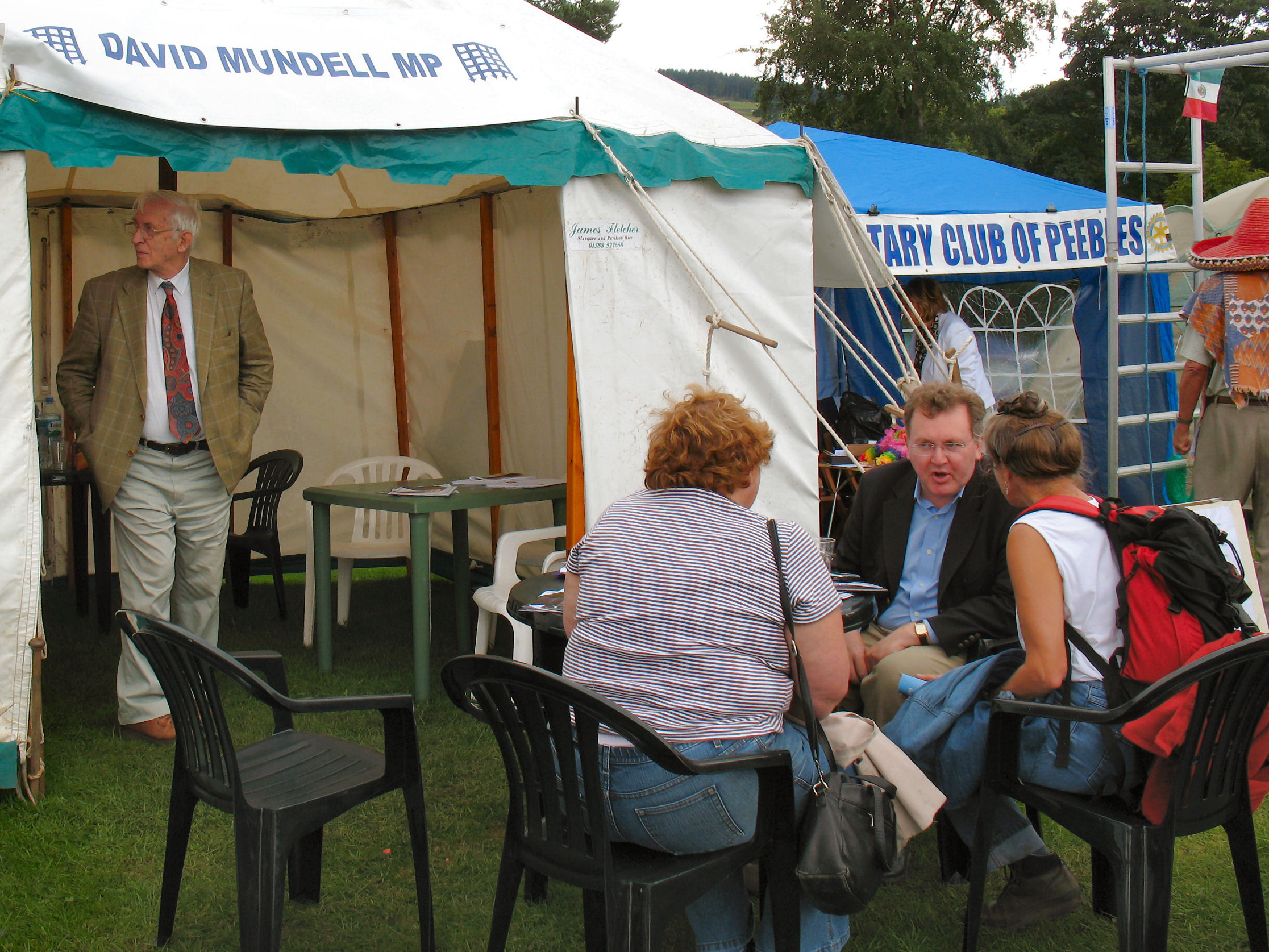 David Mundell MP at the Peebles Show, 16 August 2008